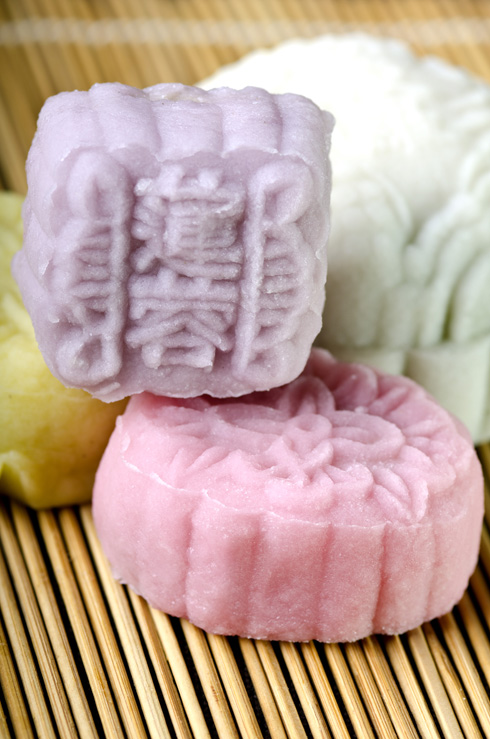 Mooncakes eaten during the Mooncake festivals. Modern mooncakes come in all colour and flavors.